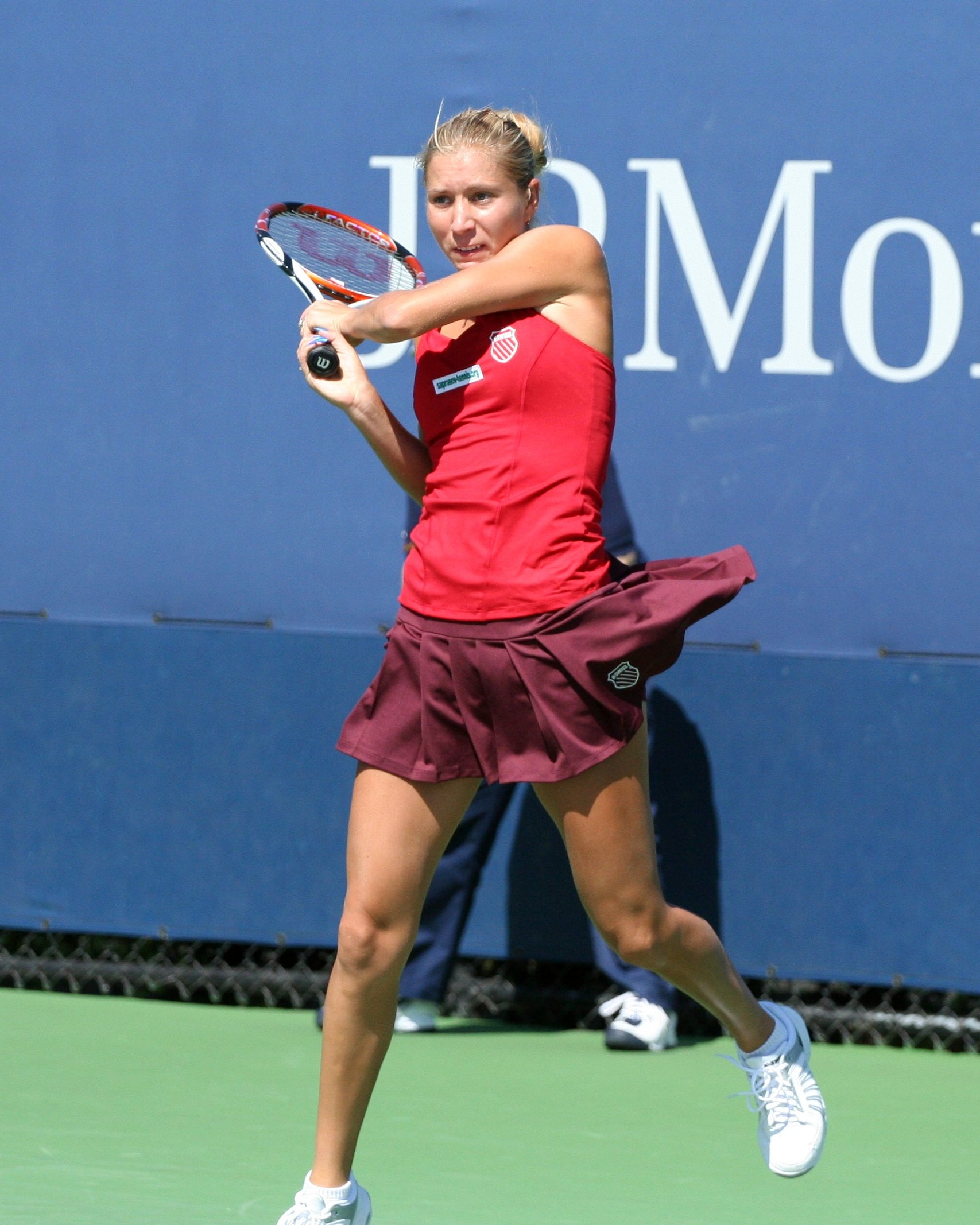 U.S. Open Tuesday, Sept. 1, 2009